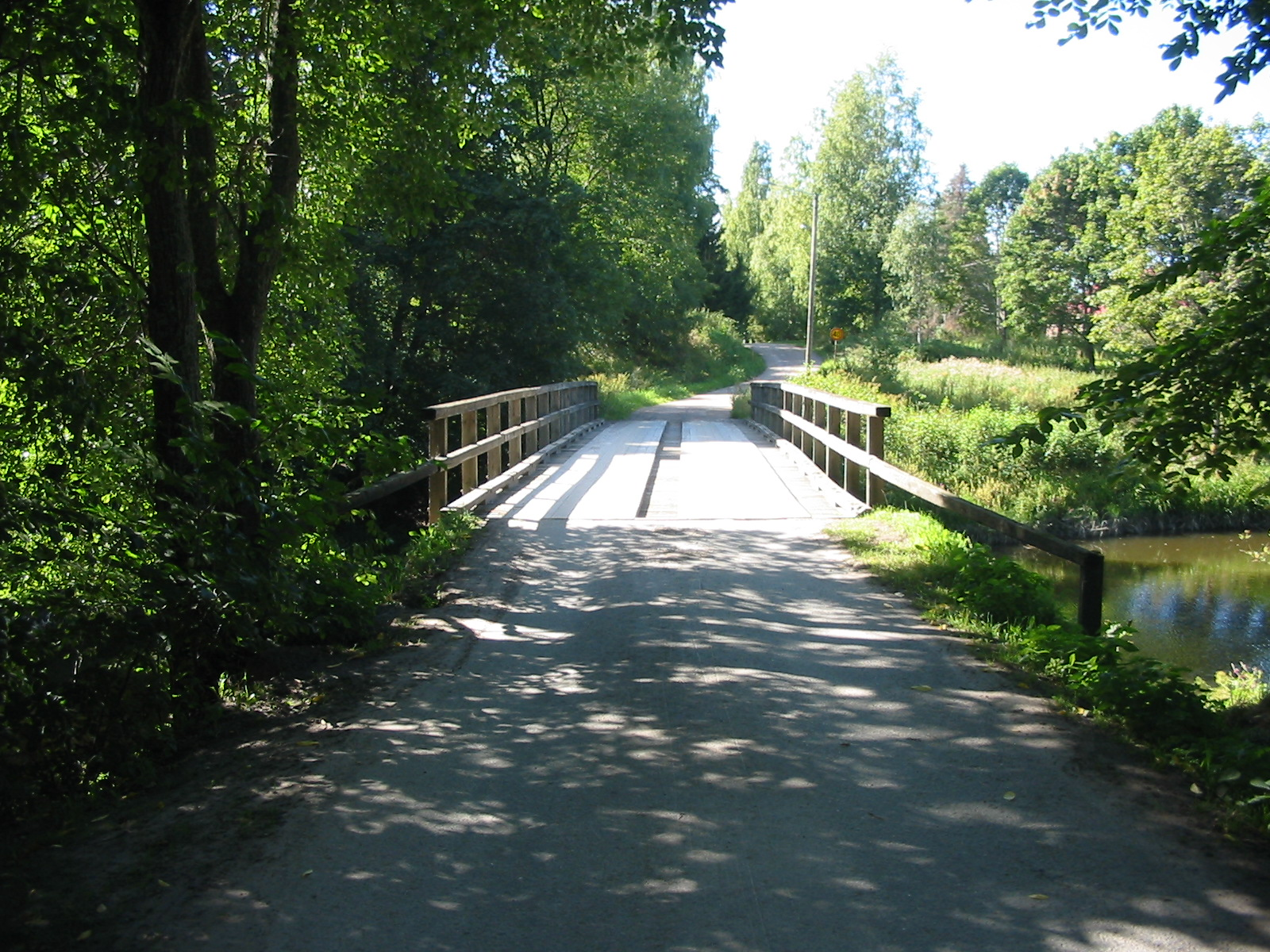 Bridge in Saarentie over Kirkkojuopa in Ulvila between Ulvila Church and Saari Manor